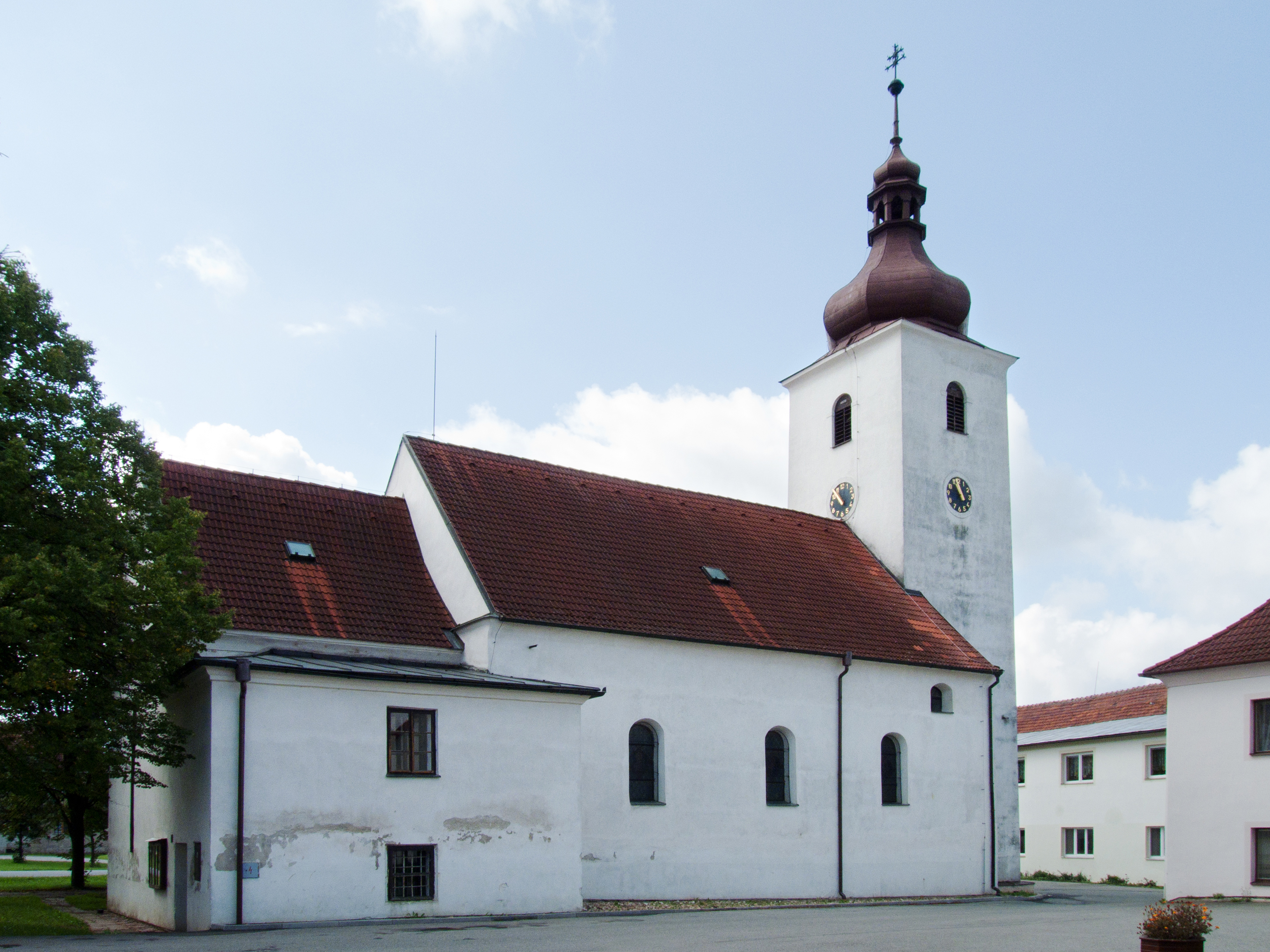 Saint Adalbert of Prague Church in the village of Ratibořské Hory, Tábor District, Czech Republic as seen from the north